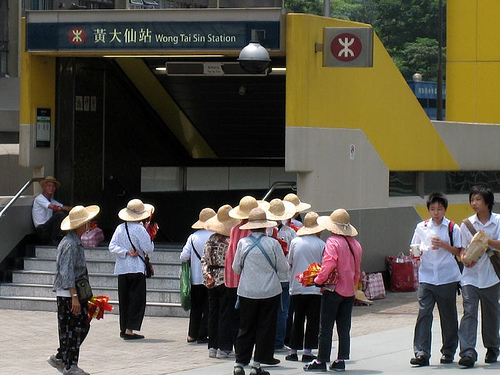 The Granny Incense Brigade reporting for duty. They're all over you once you step out the MTR. (Wong Tai Sin MTR serves the vicinity of Wong Tai Sin Temple, the women shown are street traders who offer incense for sale, which is used as an offering in the temple).